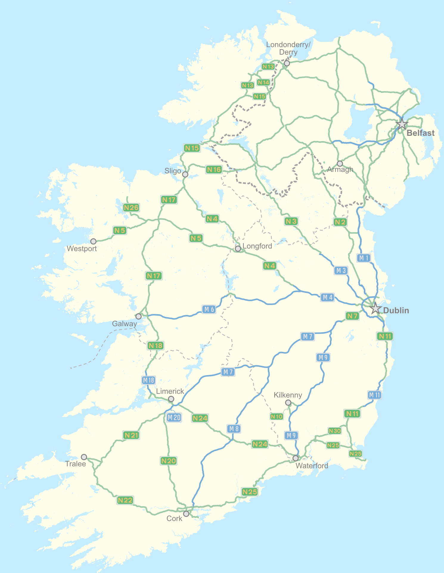 Map of national roads and motorways in Ireland, with Nxx routes in green and Mxx routes in blue